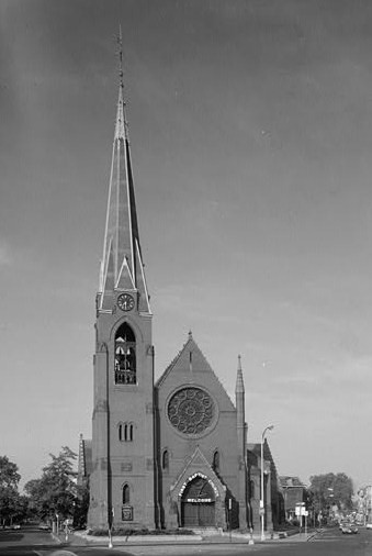 First Baptist Church, 5 Magazine Street, Cambridge (Middlesex County, Massachusetts) - cropped This file comes from the Historic American Buildings Survey (HABS), Historic American Engineering Record (HAER) or Historic American Landscapes Survey (HALS). These are programs of the National Park Service established for the purpose of documenting historic places. Records consist of measured drawings, archival photographs, and written reports. When reusing please credit: Library of Congress, Prints & Photographs Division, MASS,9-CAMB,51-1 This tag does not indicate the copyright status of the attached work. A normal copyright tag is still required. See Commons:Licensing. This work is in the public domain in the United States because it is a work prepared by an officer or employee of the United States Government as part of that person’s official duties under the terms of Title 17, Chapter 1, Section 105 of the US Code. Note: This only applies to original works of the Federal Government and not to the work of any individual U.S. state, territory, commonwealth, county, municipality, or any other subdivision. This template also does not apply to postage stamp designs published by the United States Postal Service since 1978. (See § 313.6(C)(1) of Compendium of U.S. Copyright Office Practices). It also does not apply to certain US coins; see The US Mint Terms of Use. This file has been identified as being free of known restrictions under copyright law, including all related and neighboring rights. This image or media file contains material based on a work of a United States Department of the Interior employee, created as part of that person's official duties. As a work of the U.S. federal government, such work is in the public domain in the United States. See the Department of the Interior copyright policy for more information.